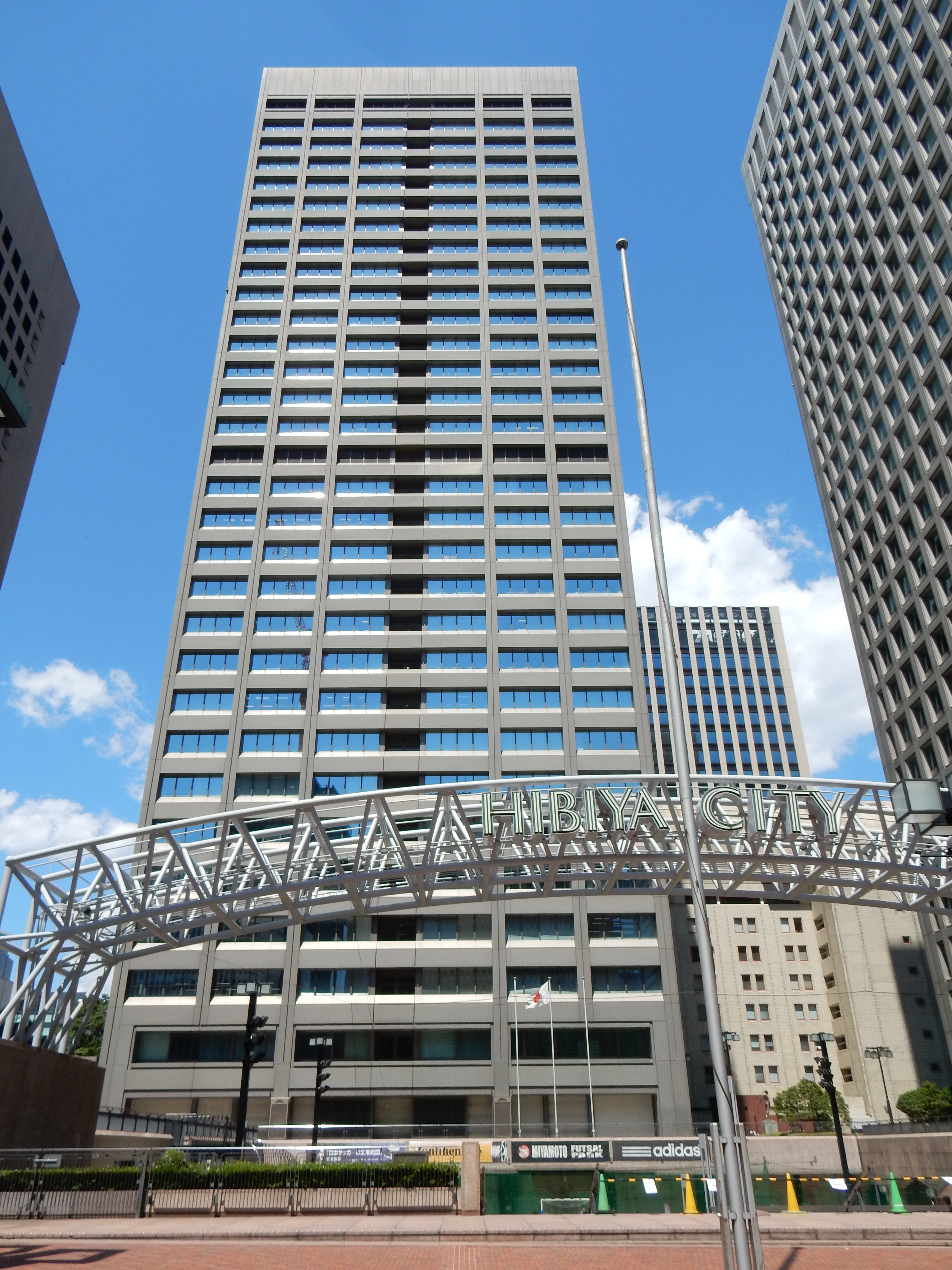 Hibiya International Building (日比谷国際ビルヂング), located at 2-2-3 Uchisaiwaicho, Chiyoda, Tokyo, Japan